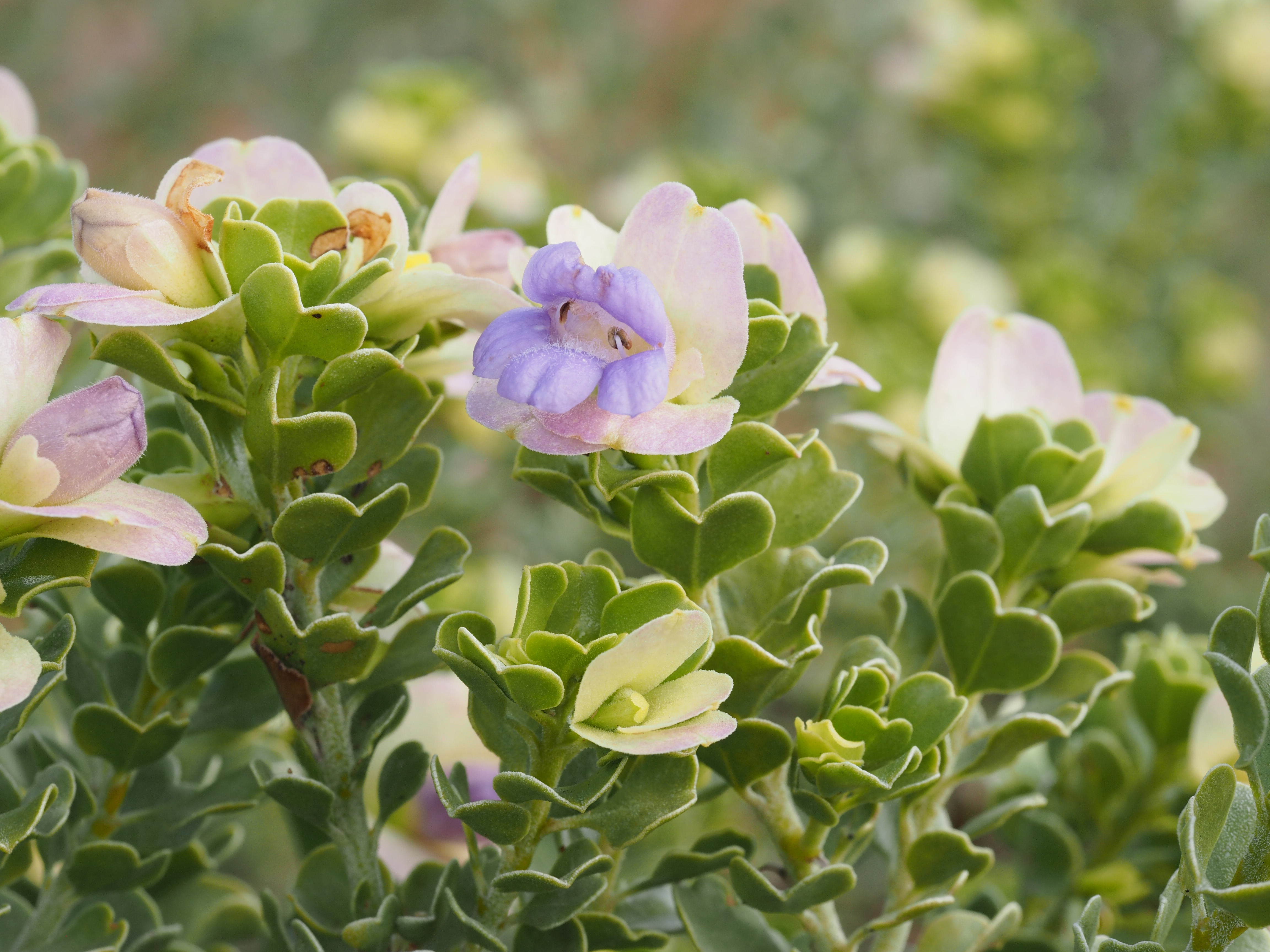 Eremophila cuneifolia (cream-coloured sepals) growing near the Kennedy Range